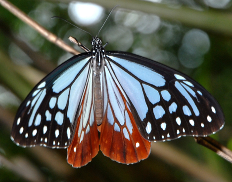 The picture was taken in Hakone are of Japan on 1st of August 2007